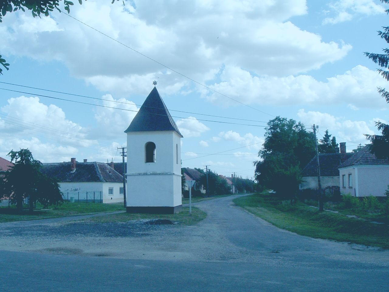 The Bell-Tower in Sorkikápolna, Hungary